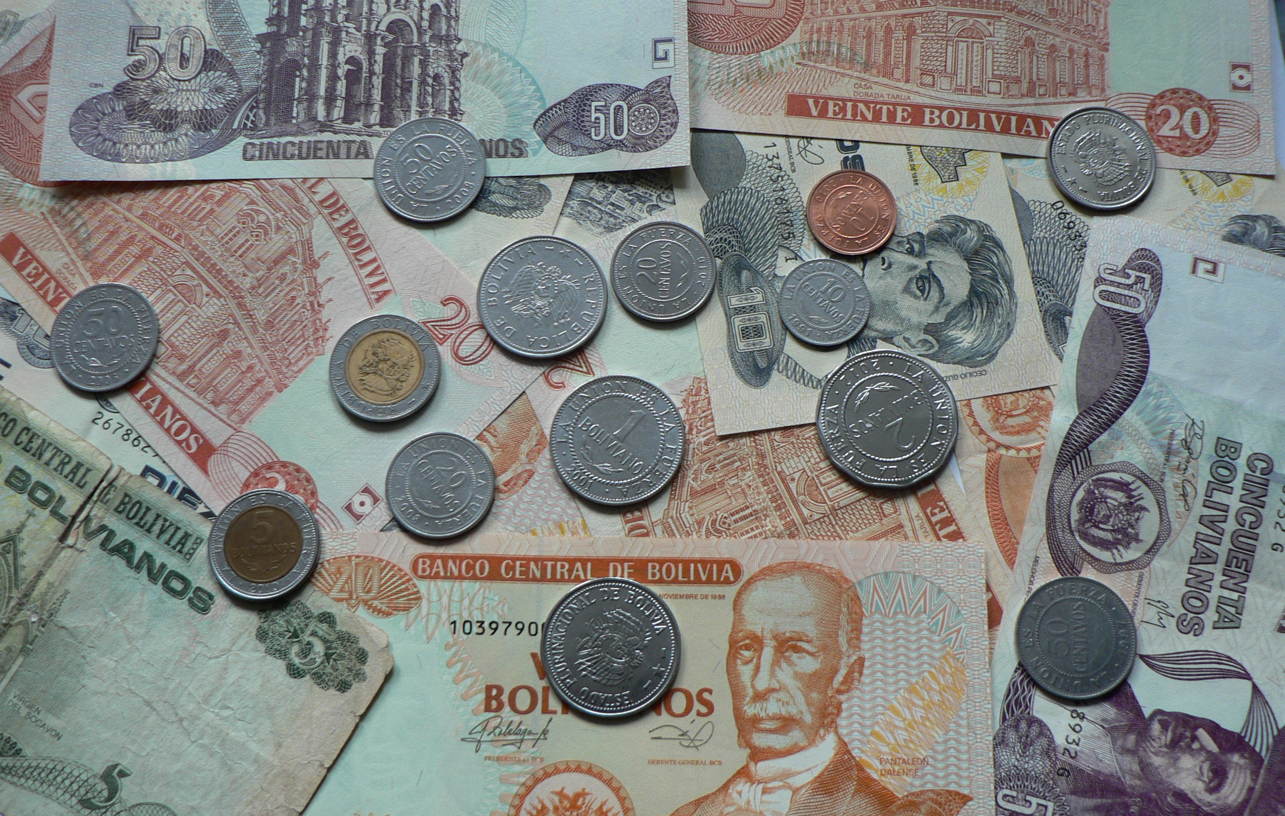 Bolivian coins and bills.